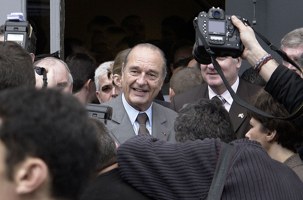 French president Jacques Chirac